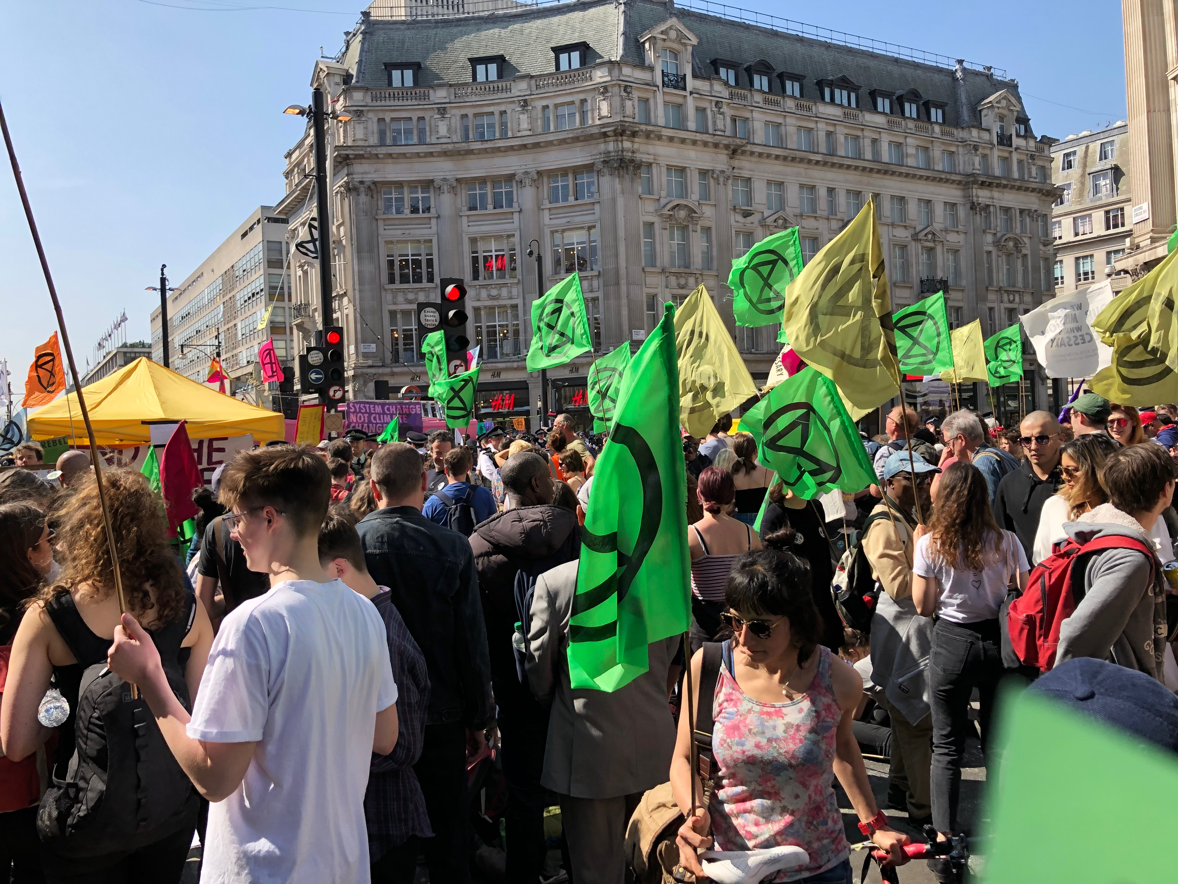 Extinction Rebellion non-violent demonstration against environmental degradation, species loss, and climate disruption.